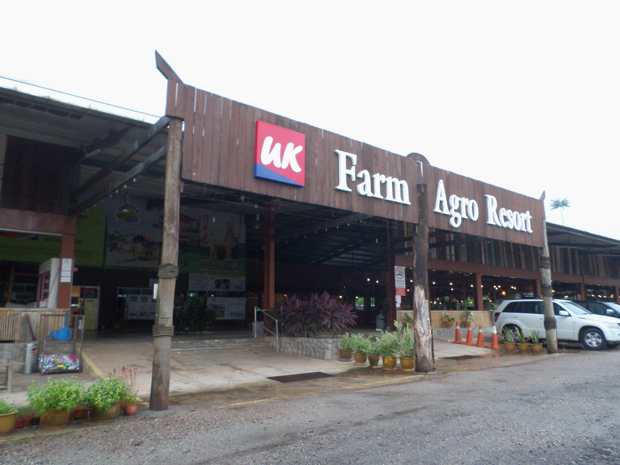 UK Farm Agro Resort, Kluang, Johor, Malaysia